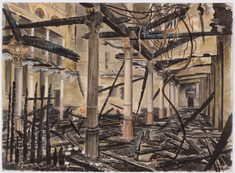 Interior of the City Temple (London) after being destroyed in The Blitz in 1941